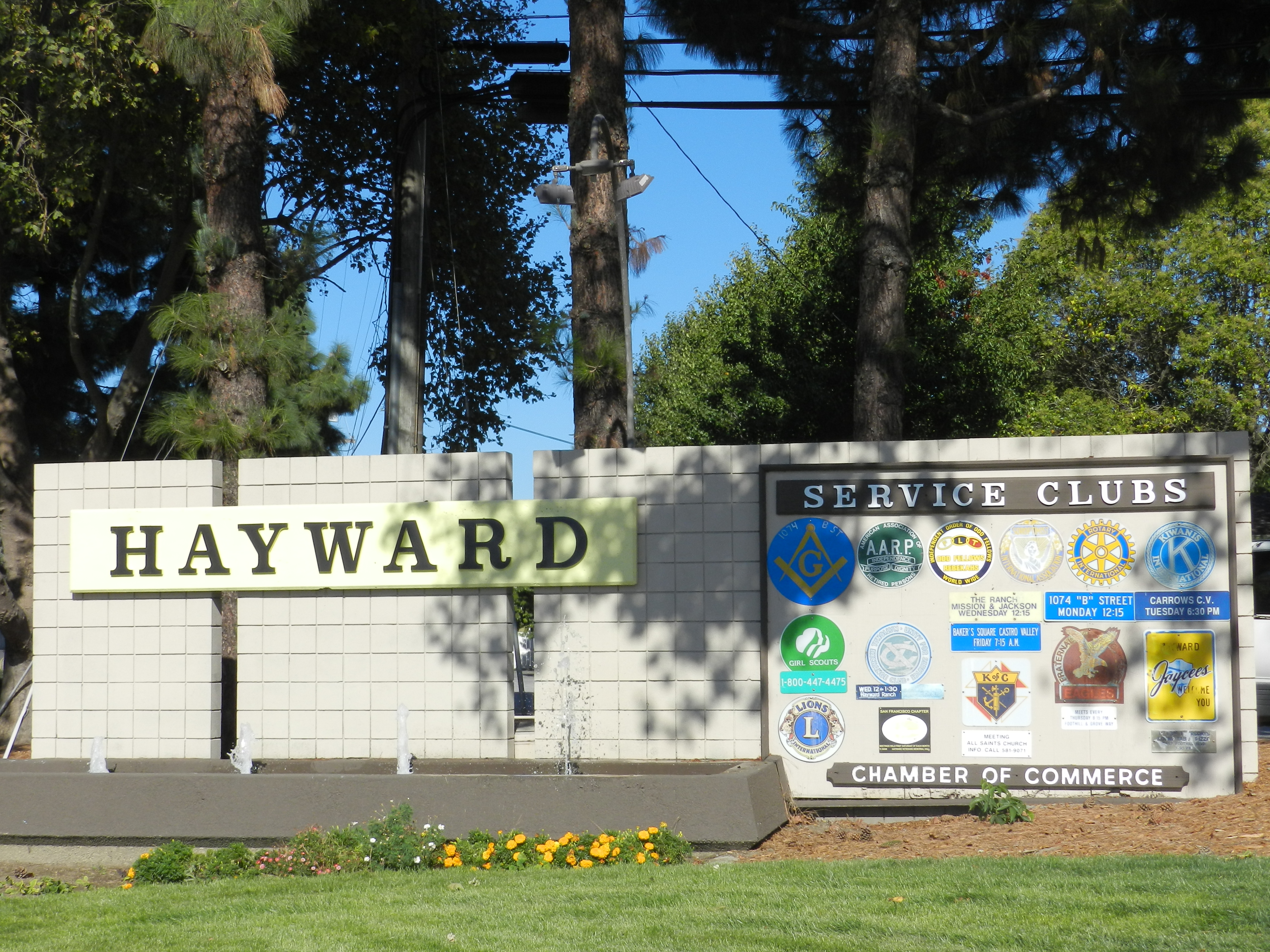 Service sign for Hayward, along Route 92 (Jackson Blvd.), Hayward, California